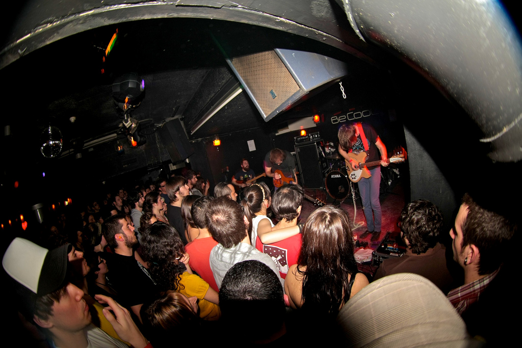 This Will Destroy You performing in Barcelona, Spain, in April 2009.